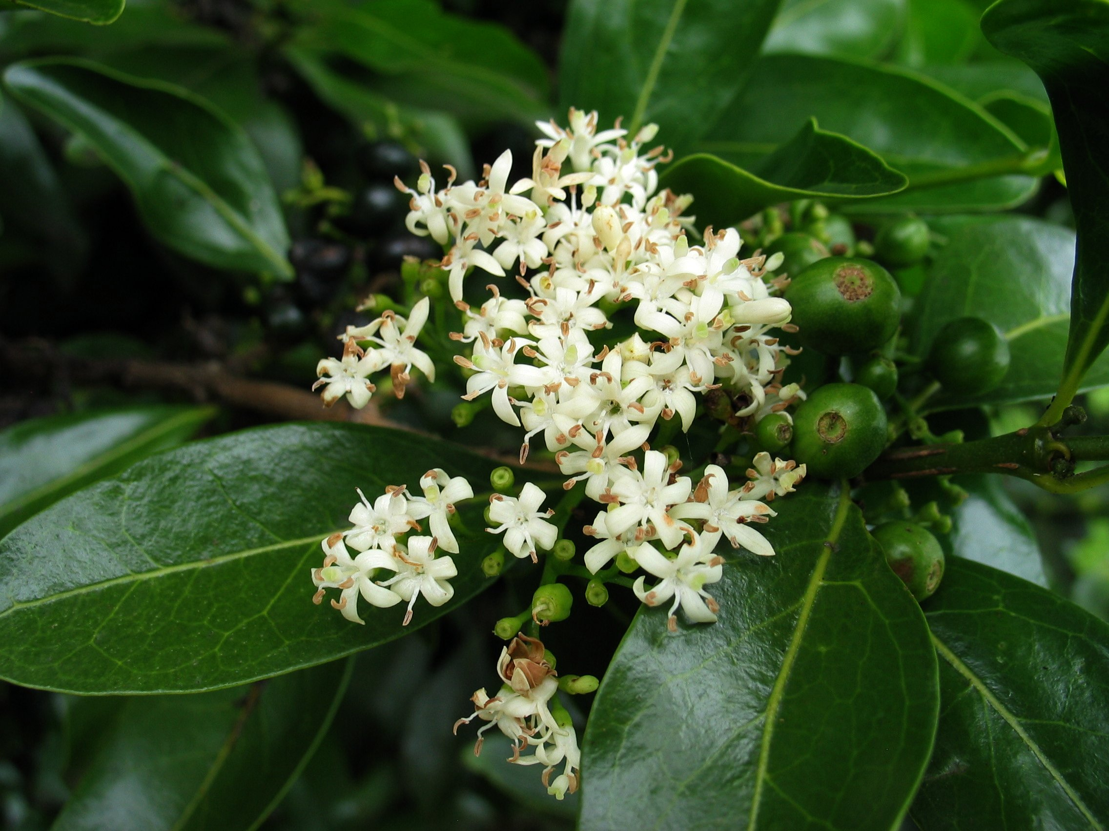 Alaheʻe or Walaheʻe [syn. Canthium odoratum] Rubiaceae Indigenous to the Hawaiian Islands Oʻahu (Cultivated) Fragrant flowers & green fruits Reportedly a dark brown or black dye was produced from the leaves of alaheʻe by early Hawaiians. Spears, from 6 to 13 feet long, were fashioned for capturing heʻe (octopus) and were often made from alaheʻe. The hardwood was used for farming tools such as ʻōʻō, fishhooks, shark hooks (makau manō) with bone points, short spears (ʻo), and dip nets for fish and crabs. The wood was also made into adze blades for cutting softer wood such as wiliwili and kukui. Medicinally, the leaves and "the white skin of the stem" are prepared by cooking and the bitter medicine is drunk to cleanse the blood. NPH00002